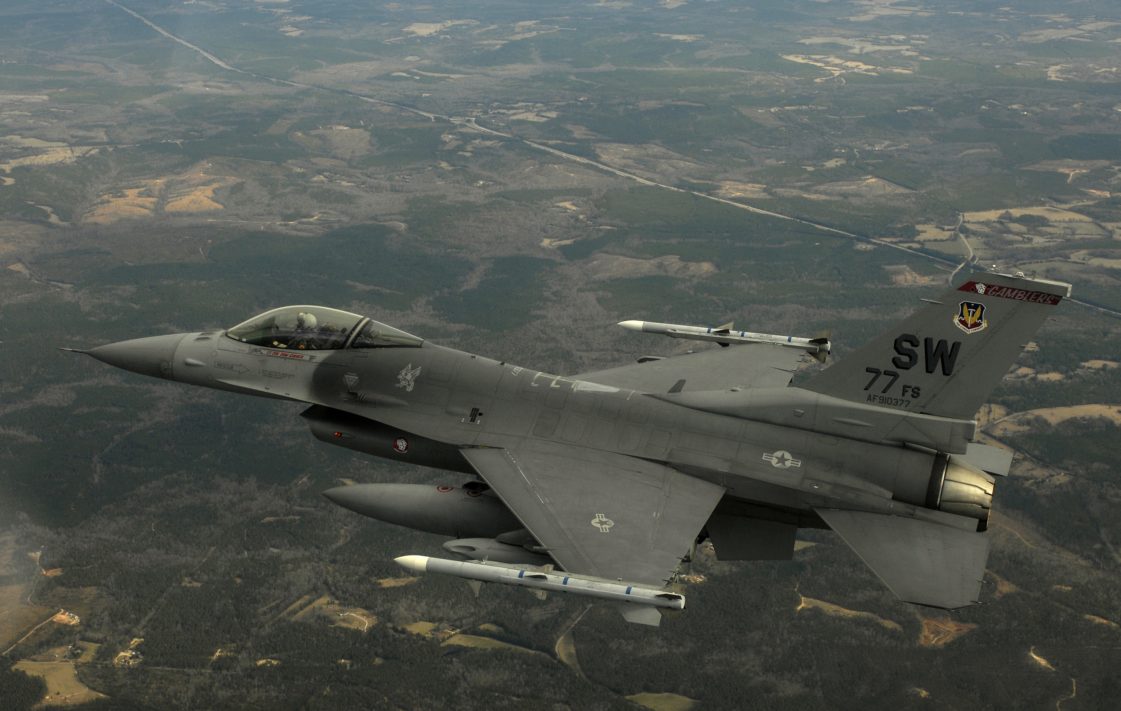 Lockheed Martin F-16CJ Fighting Falcon